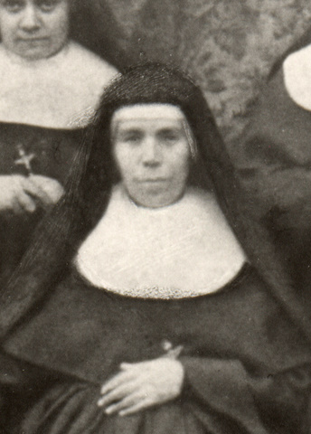 St Mary Mazzarello with missionaries